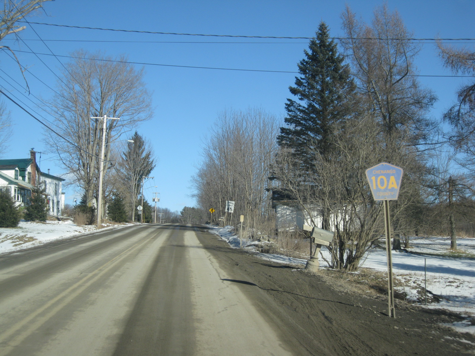 Chenango County Route 10A facing eastbound from its western terminus in the hamlet of Preston, New York.